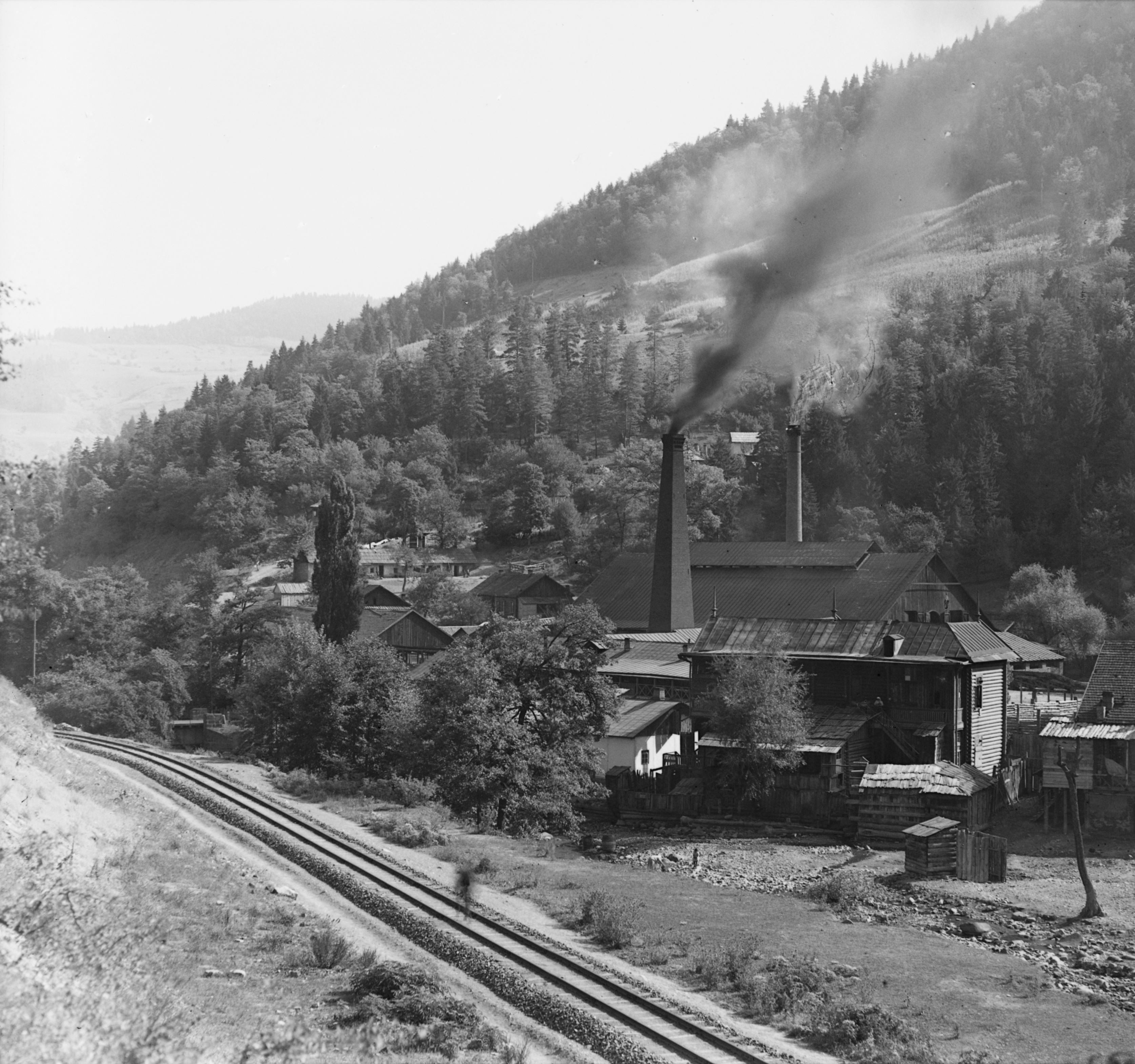 Glass factory in Borzhom.